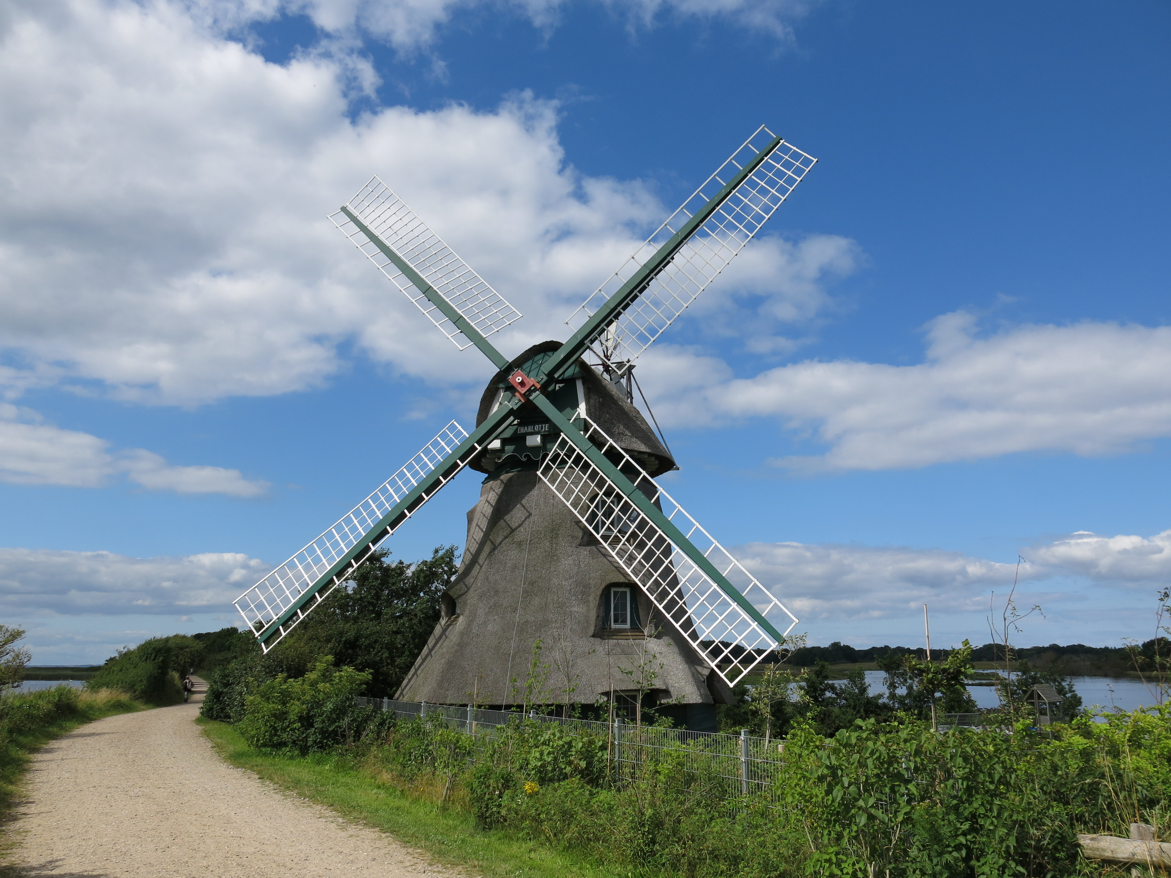 Windmill Charlotte near Nieby.